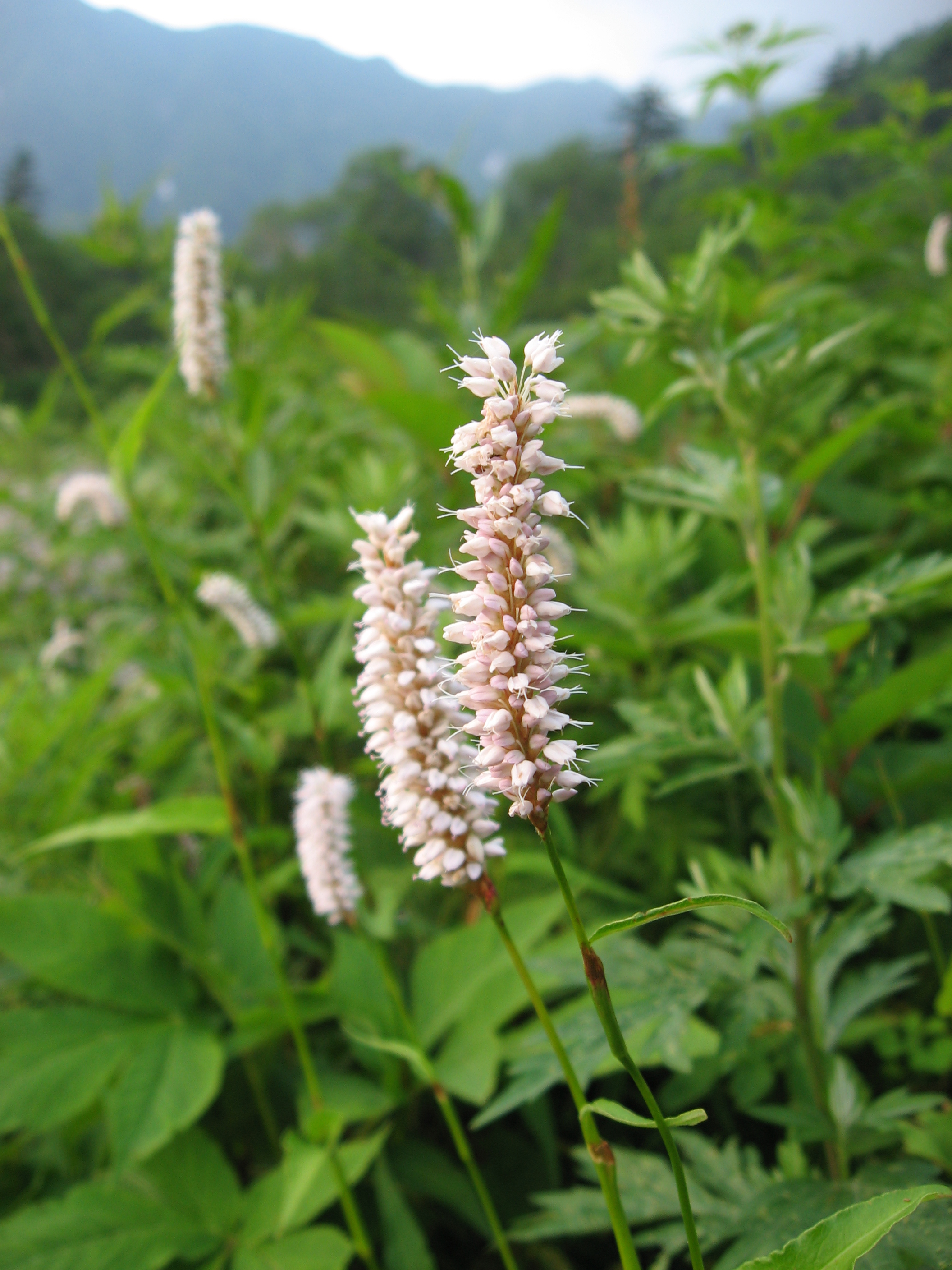 Persicaria bistorta